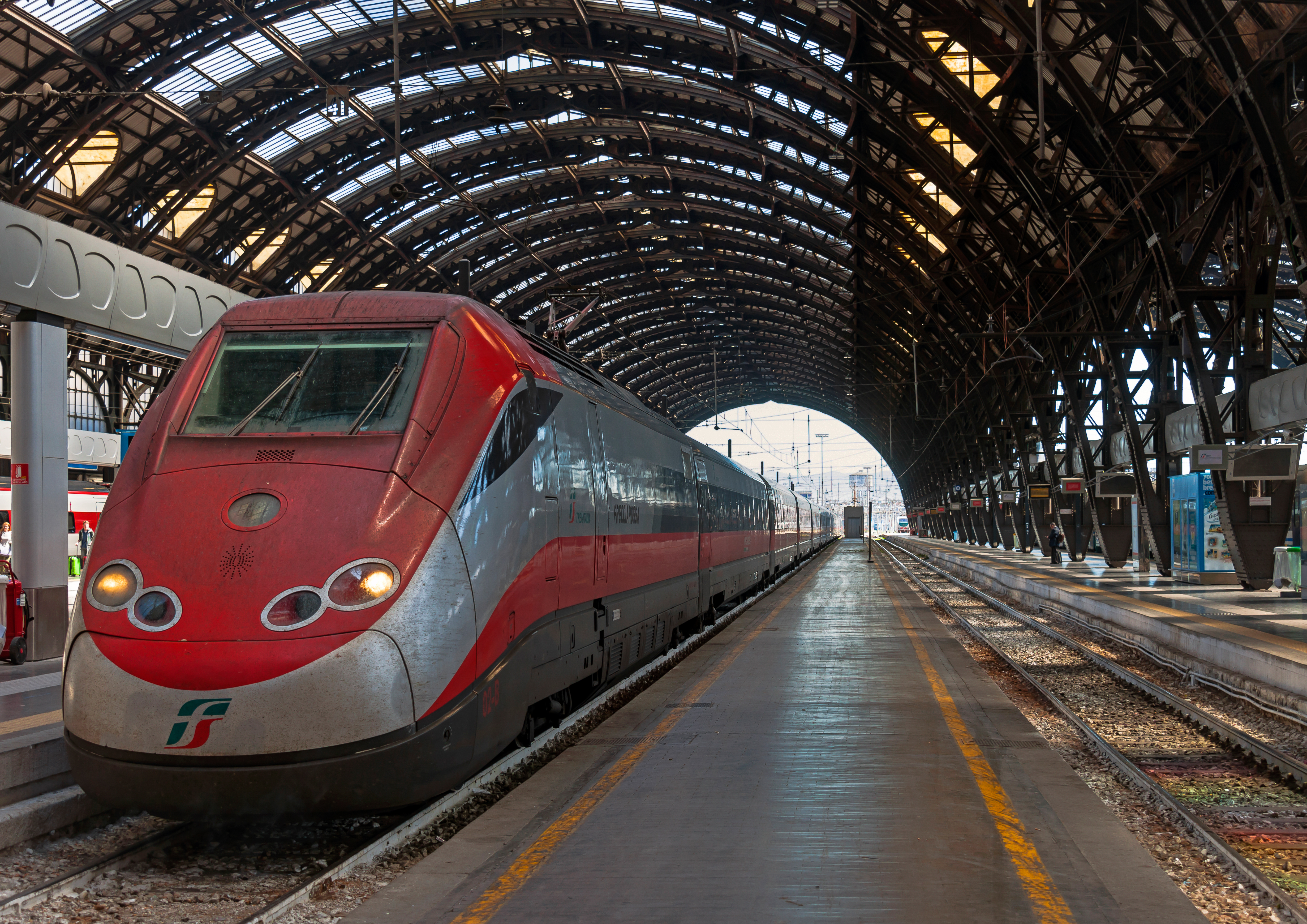 An ETR 500 Frecciarossa high-speed train waits at a platform in Milano Centrale station.